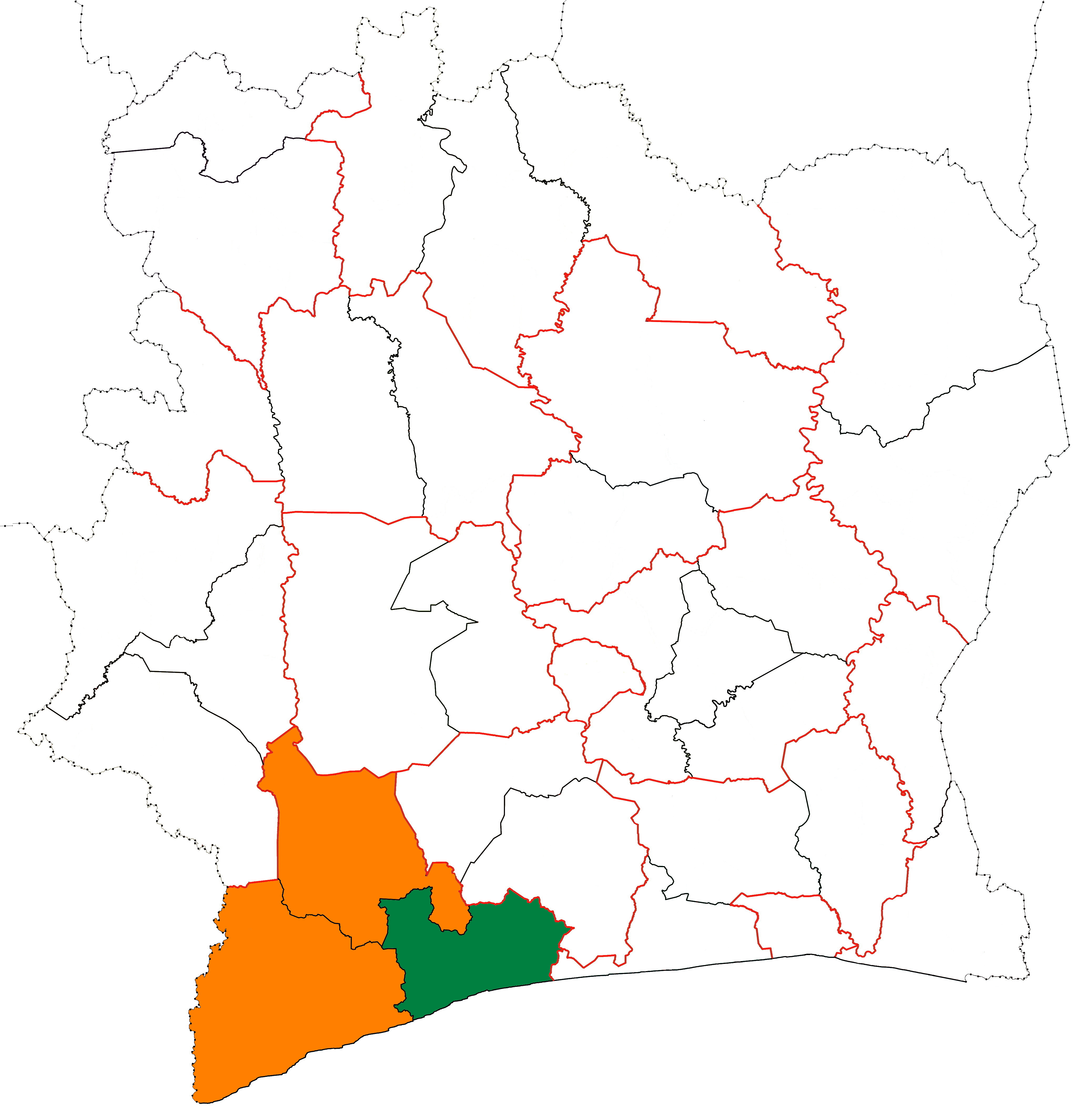 The location of Gbôklé region (green) in Côte d'Ivoire. The other shaded areas represent the other parts of Bas-Sassandra District.